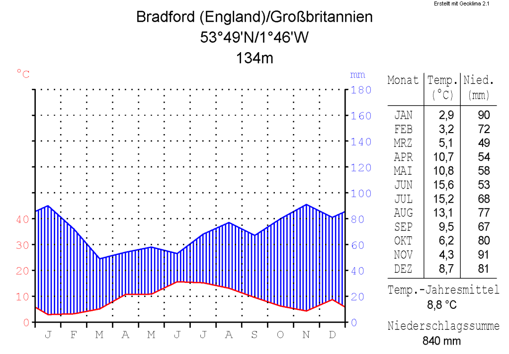 climate chart in the format by Walter and Lieth, metric, °Celsisus and millimeters, made with Geoklima 2.1